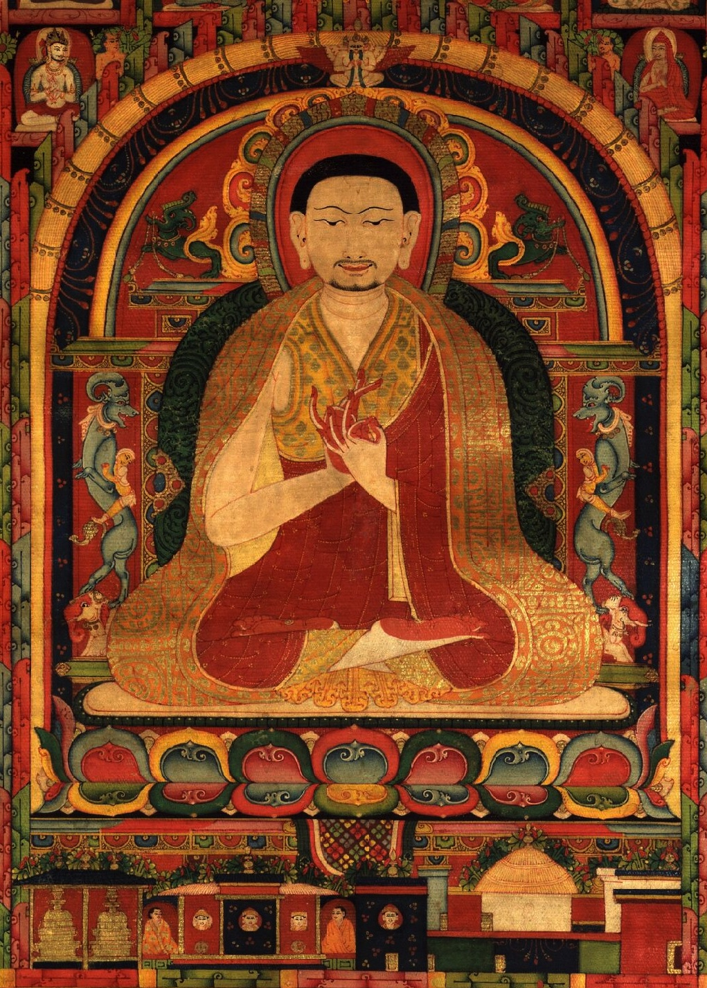 Taklung Thangpa Tashi Pel (b.1142 - d.1209) - founder of Taklung Kagyu linease of Tibetan Buddhism